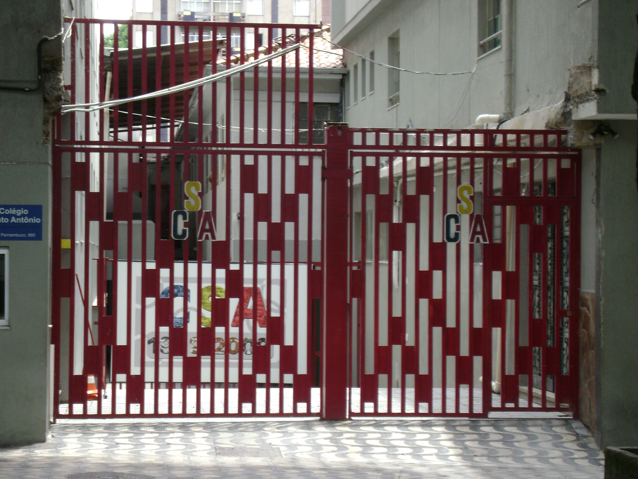 Entrada do colégio Santo Antônio (rua Pernambuco)